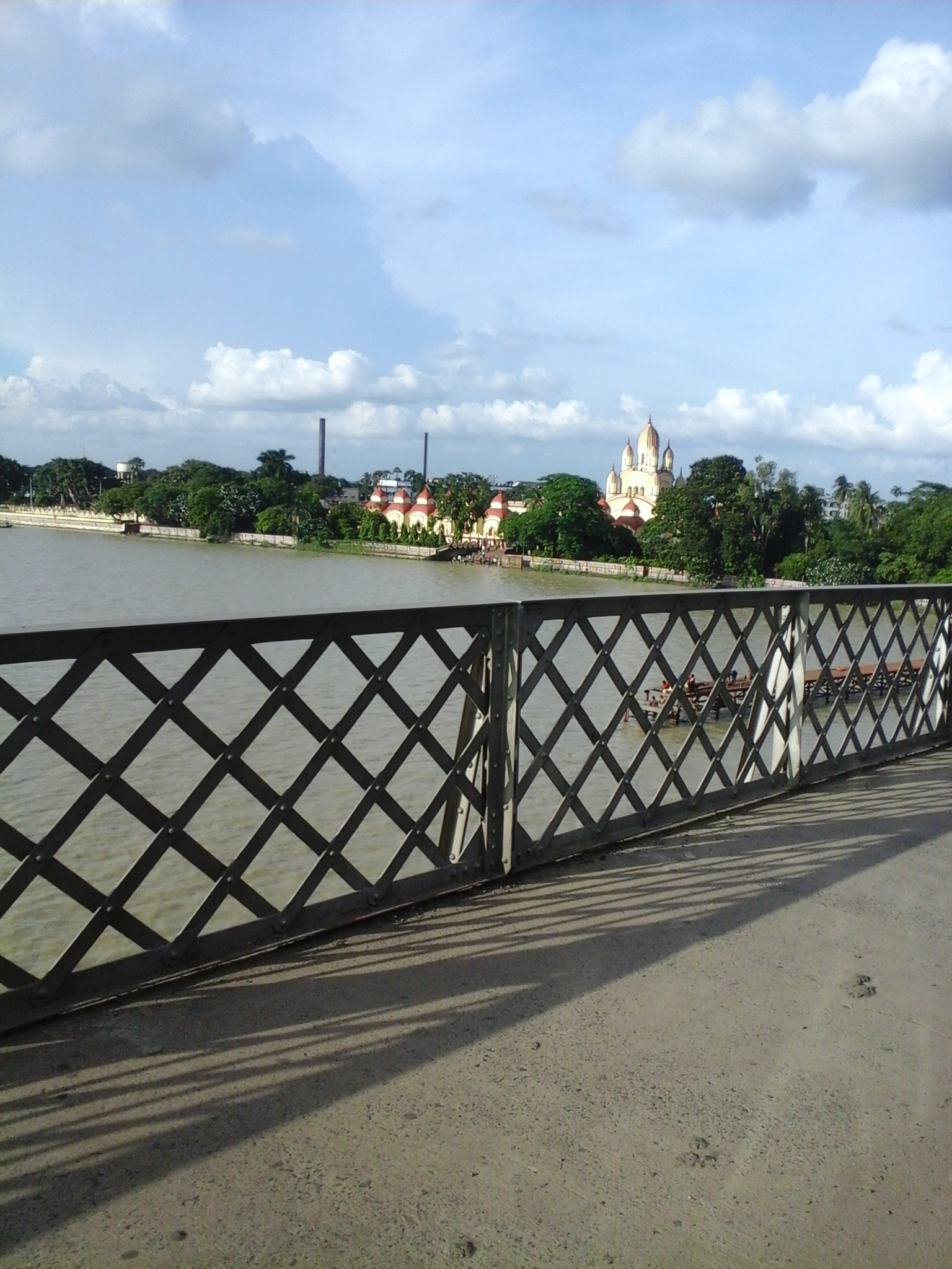 On the Bally Bridge